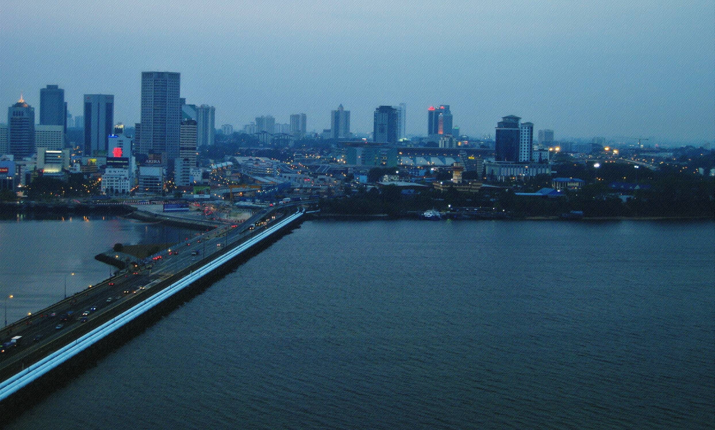 Singapore - Johor Causeway (IMG_8582)